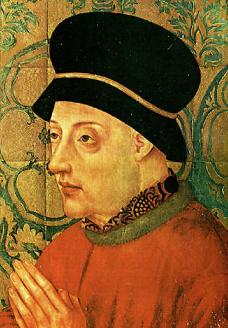 Portrait of King John I of Portugal (1357-1433)